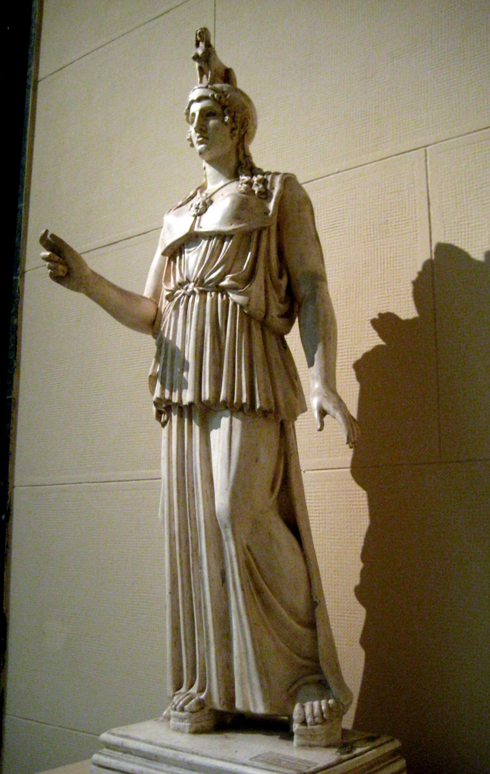 Athena_Partenos_from_Prado_(Pushkin_museum,_casting)